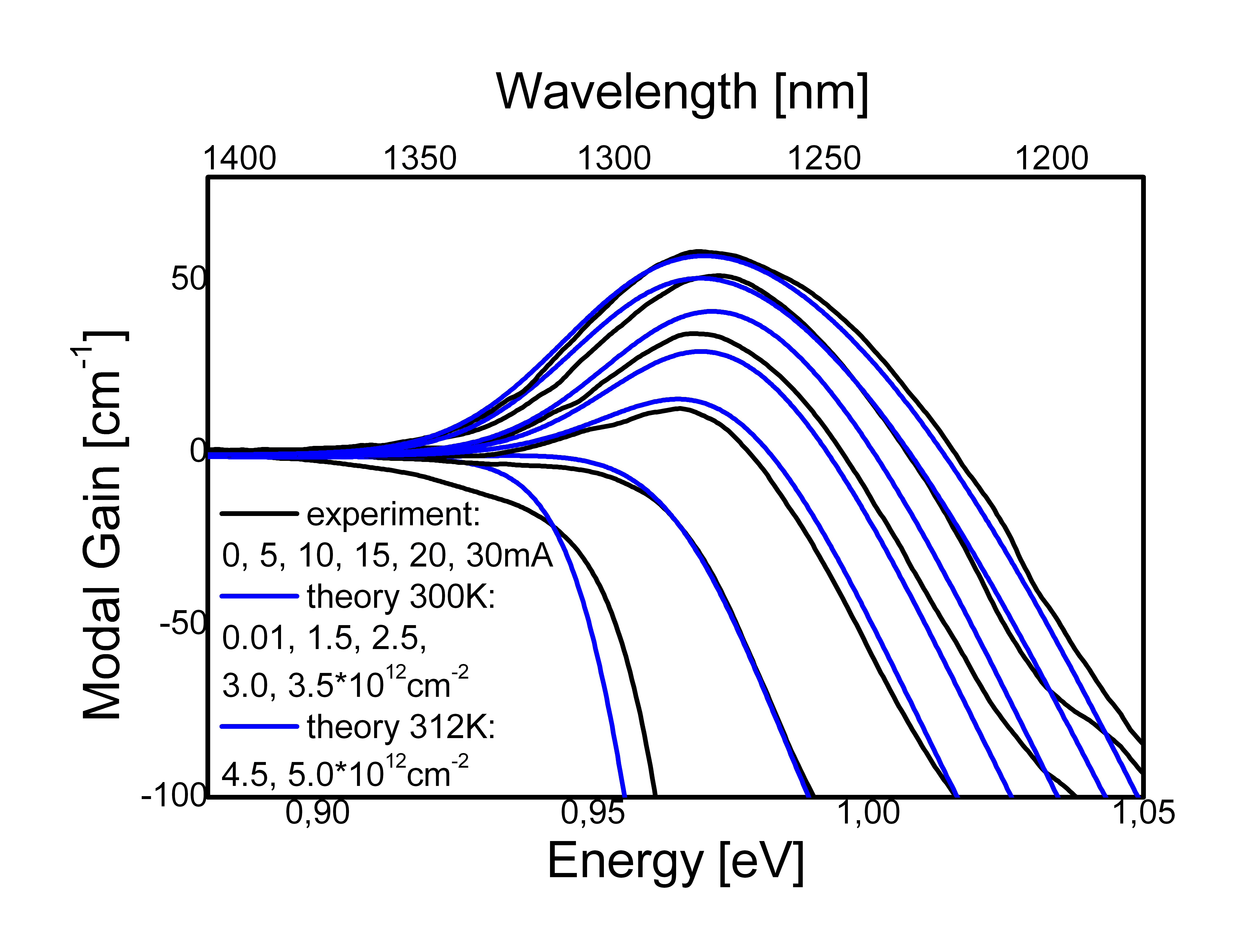 Gain spectrum of a (GaIn)(NAs)/GaAs quantum well. Experimental as well as theoretical fits are plotted.